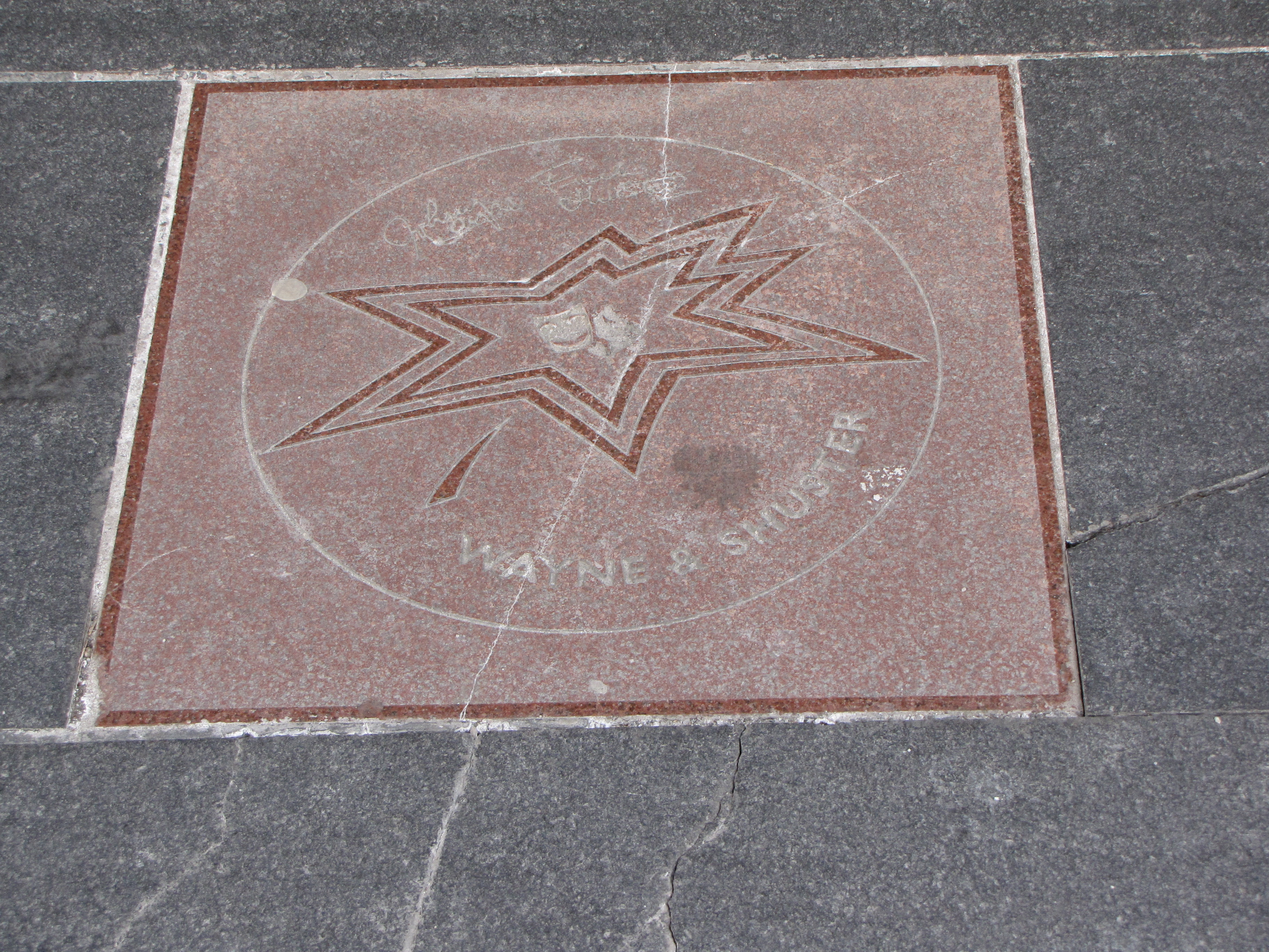 Star on Canada's Walk of Fame for the comedy duo Wayne & Shuster